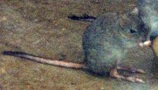 Brush-tailed Bettong (Bettongia penicillata) in Duisburg Zoo, Nordrhein-Westfalen, Germany